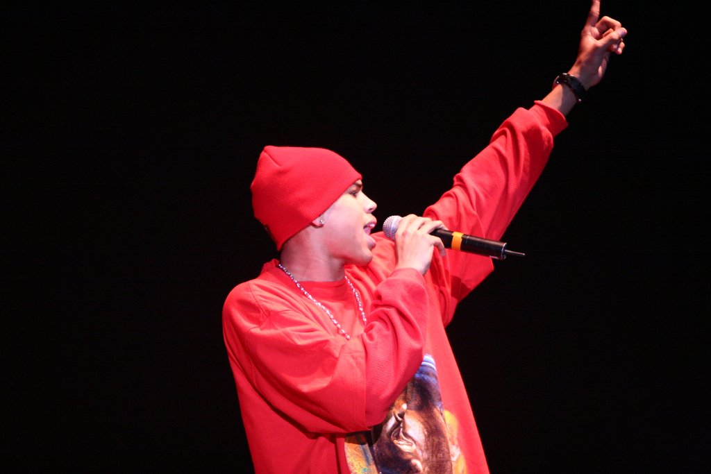 Chris Brown